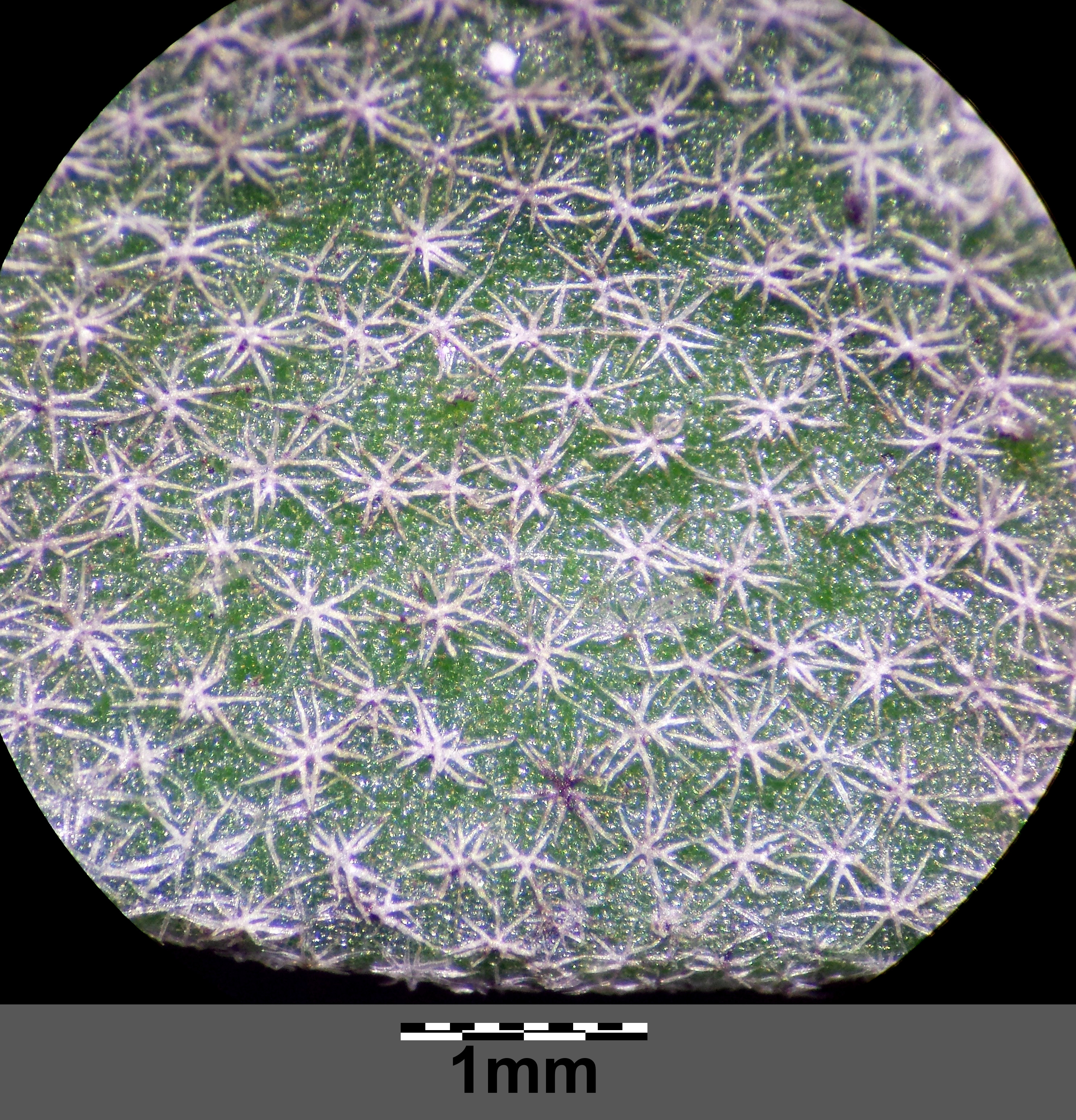 Upper side of leaf with stellar hairs Taxonym: Alyssum montanum subsp. gmelinii ss Španiel, Marhold, Thiv, Zozomová-Lihová: Botanical Journal of the Linnean Society Volume 169, Issue 2, pages 378–402, June 2012 Location: Steinbacher Heide, Leiser Berge, district Korneuburg, Lower Austria - ca. 450 m a.s.l. Habitat: rocks of limestone